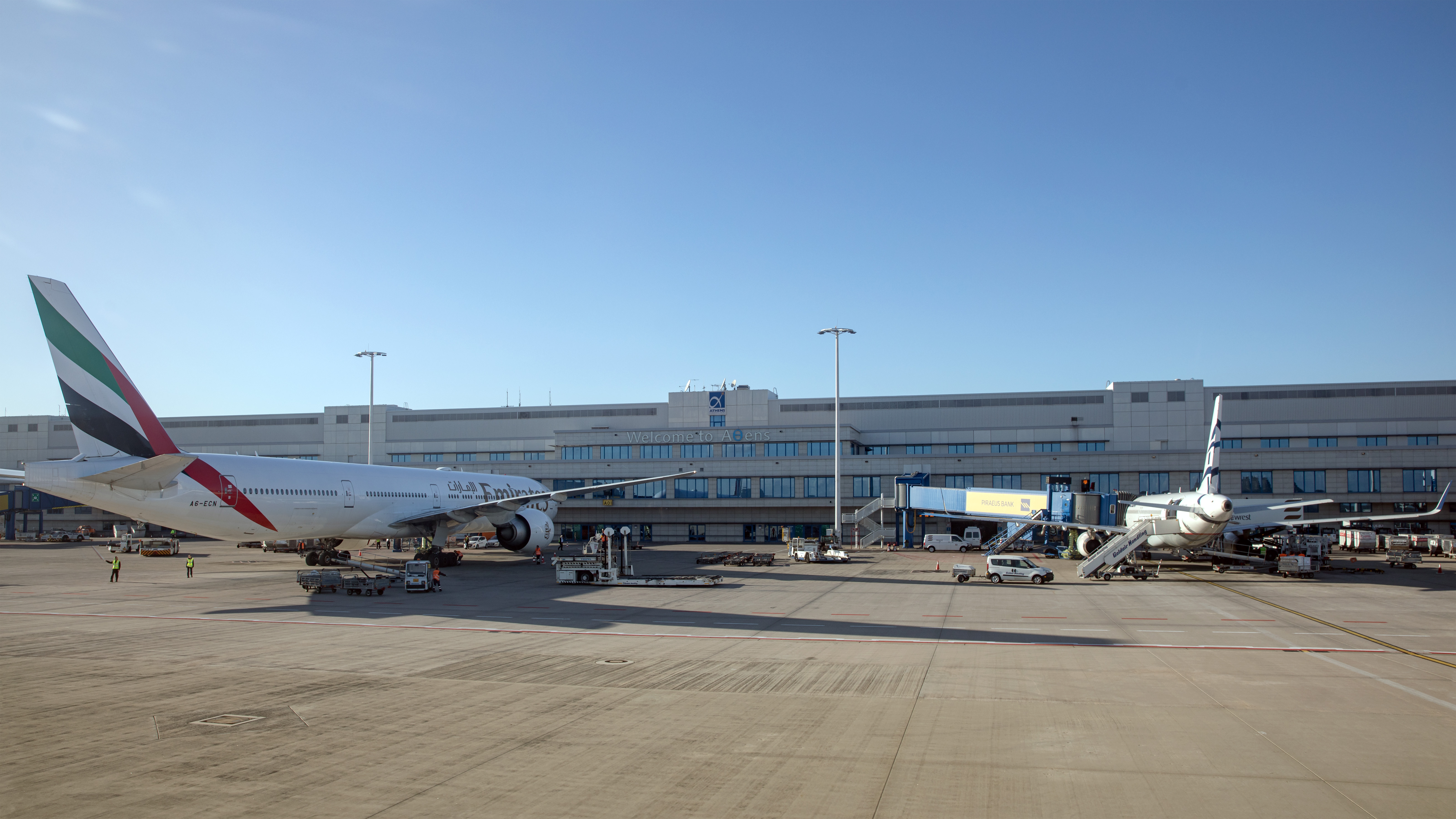 Athens International Airport, Greece.